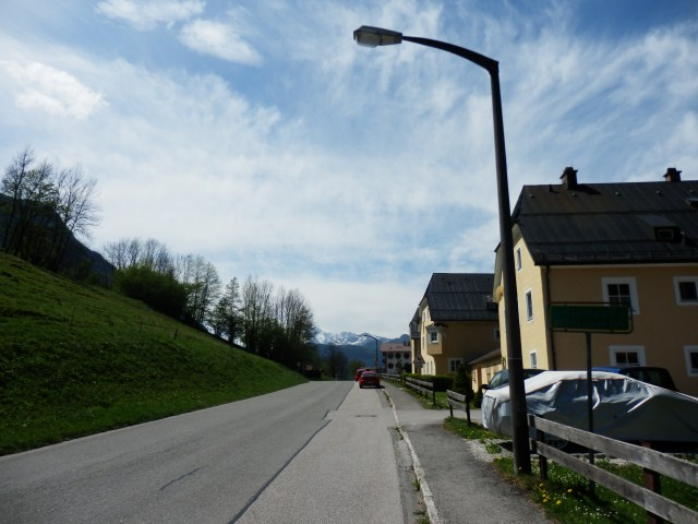 Steinpass summit